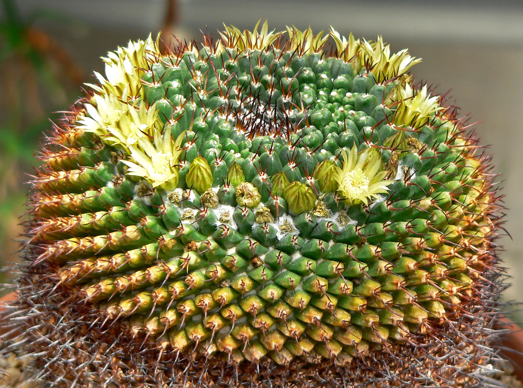 Mammillaria gigantea at the University of California Botanical Garden, Berkeley, California